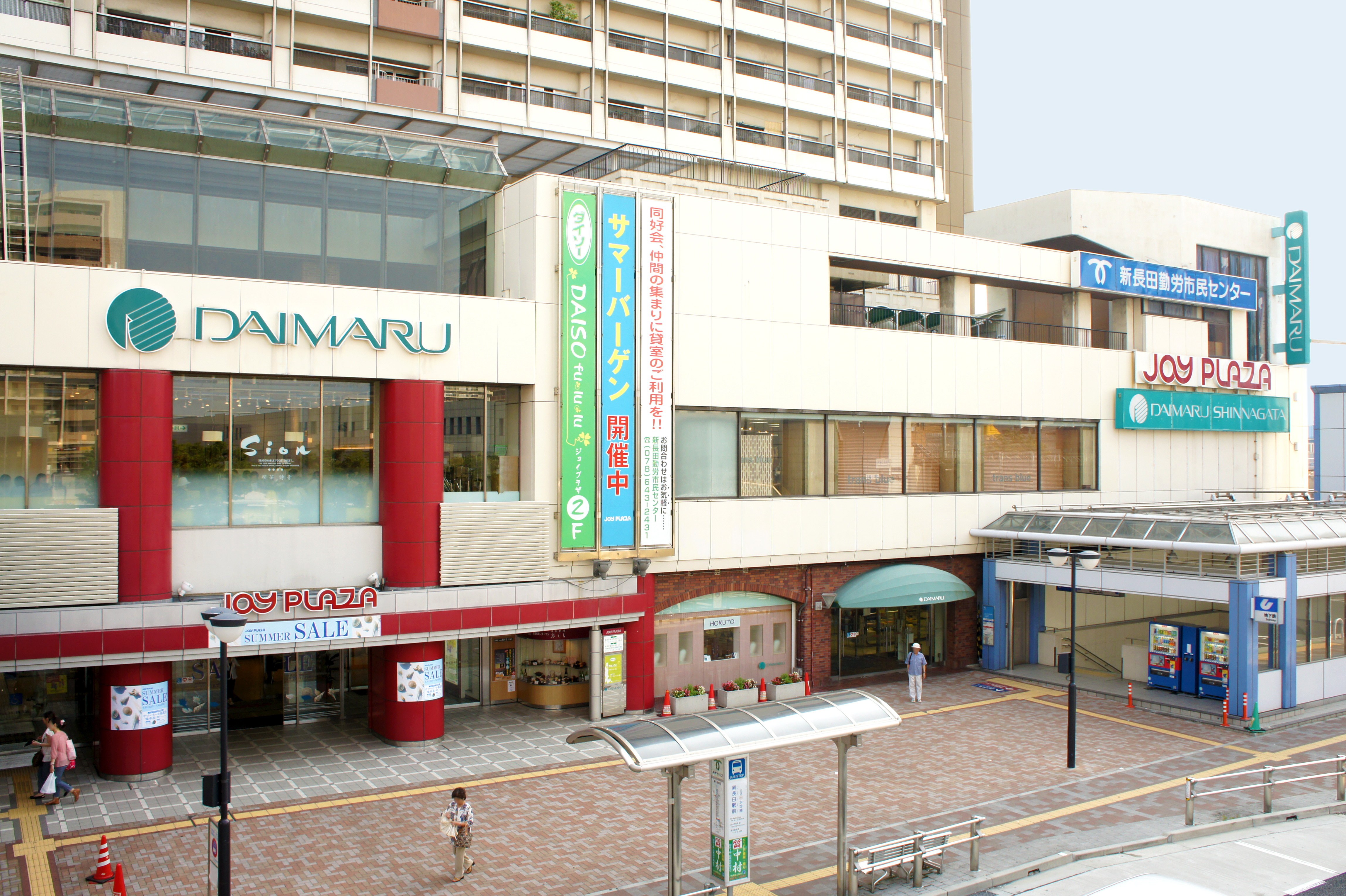 Daimaru Shin-Nagata, 5-5-1 Wakamatsucho Nagata-ku Kobe-City Hyogo Japan.